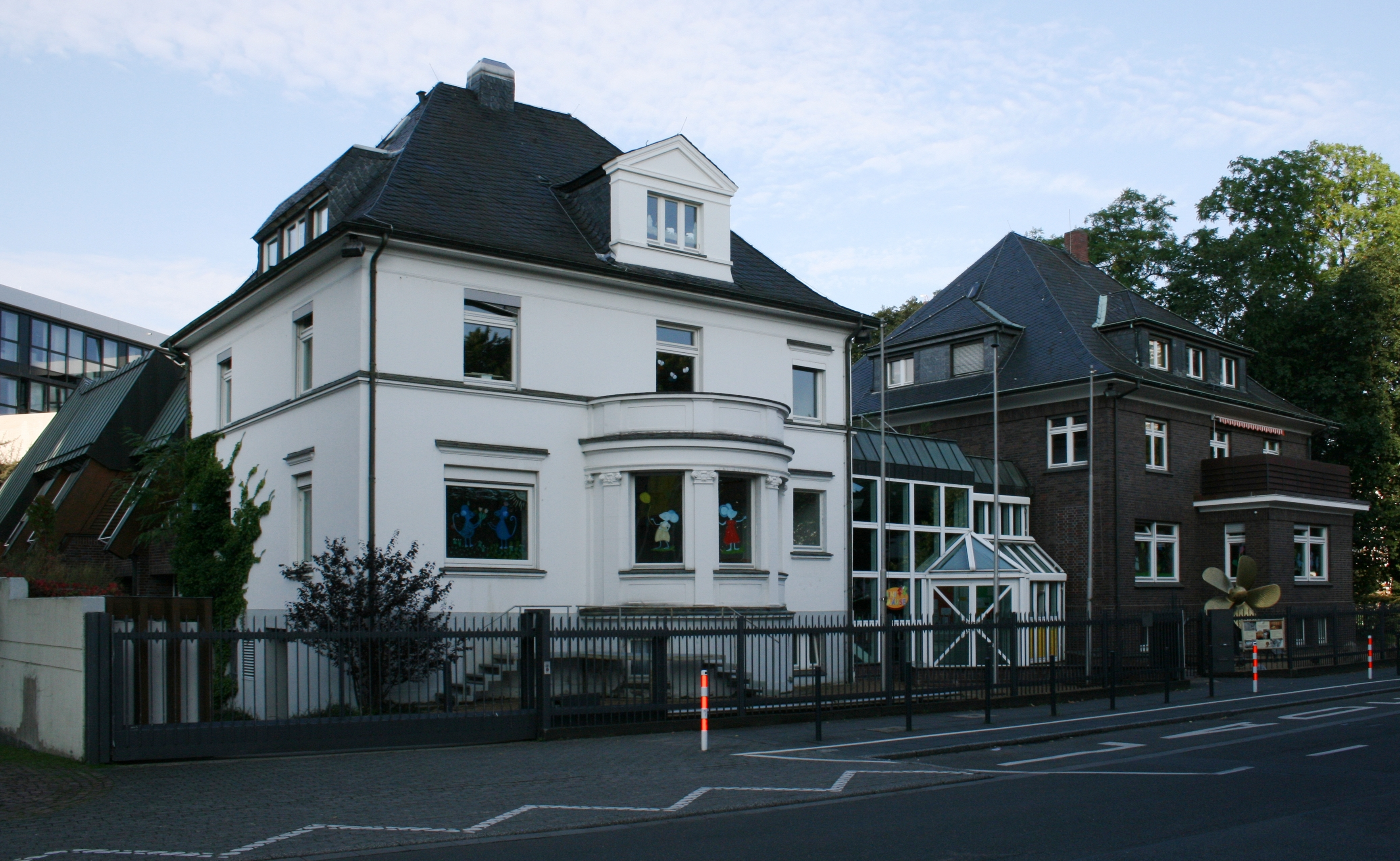 Bonn, Kurt-Schumacher-Str. 24-26: former representative of the Bundesland Schleswig-Holstein to the Federal Government (from 1953 to 2000).